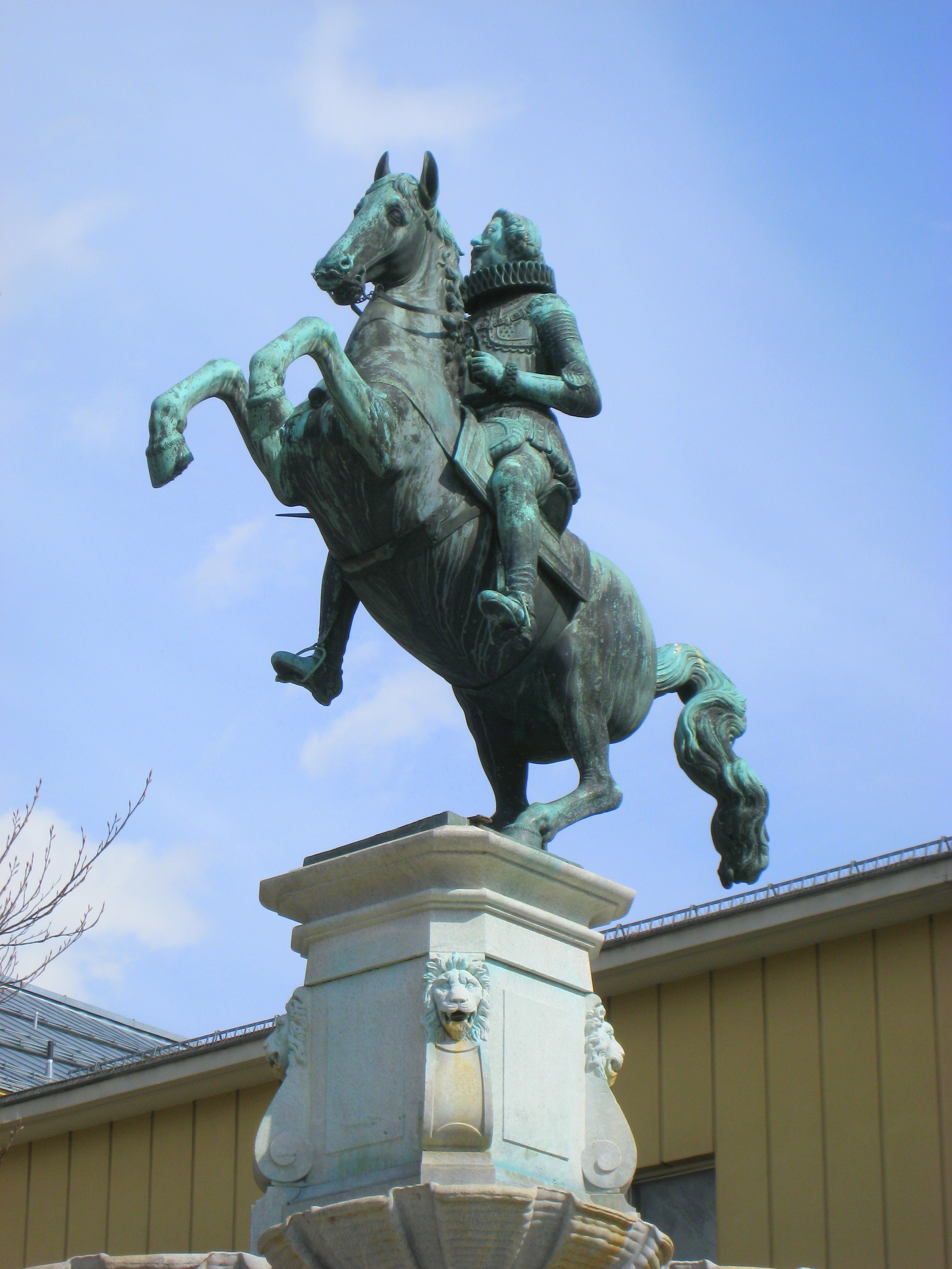 Leopoldsbrunnen, Innsbruck, Austria - memorial statue to Leopold V, Archduke of Austria (on the Rennweg near the Tiroler Landestheater Innsbruck). Statues of goddesses and sea deities by Caspar Gras (1585-1674).